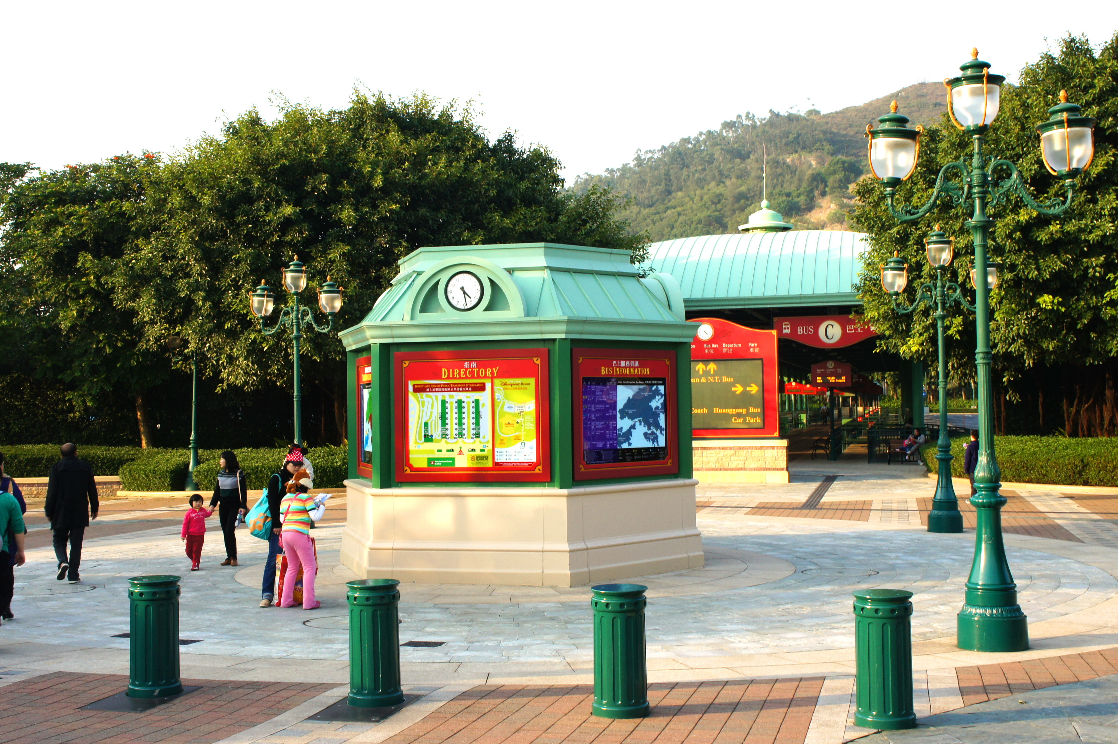 Hong Kong Disneyland Resort, Hong Kong. (Public Transport Interchange located at the back)